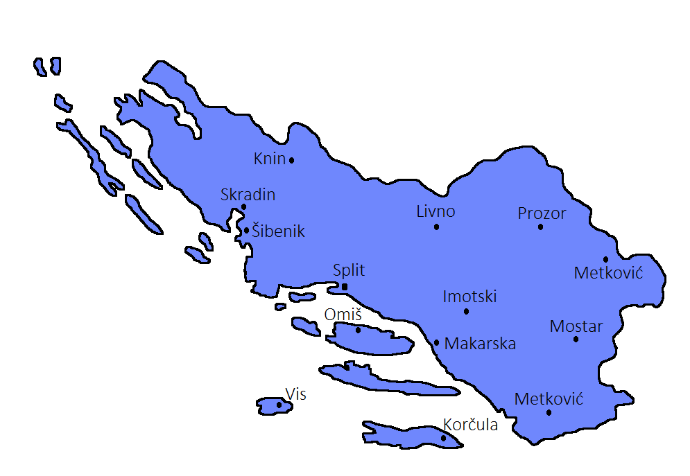 Map of the banovina with the most important places and cities, including the capital, Split